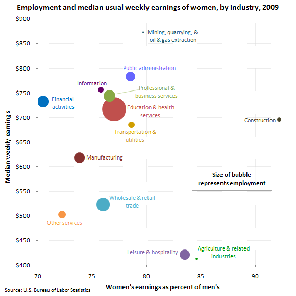 Employment and average income for women across different industries